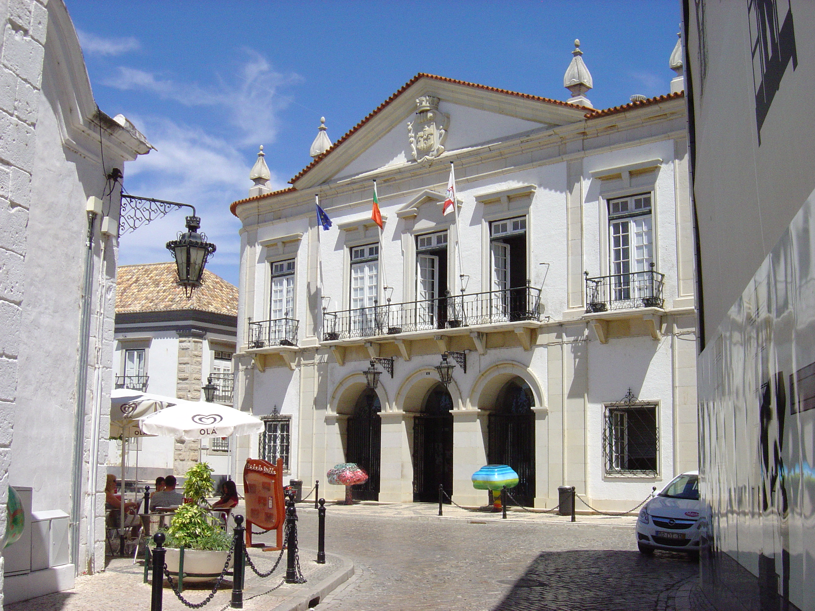 Faro, Portugal